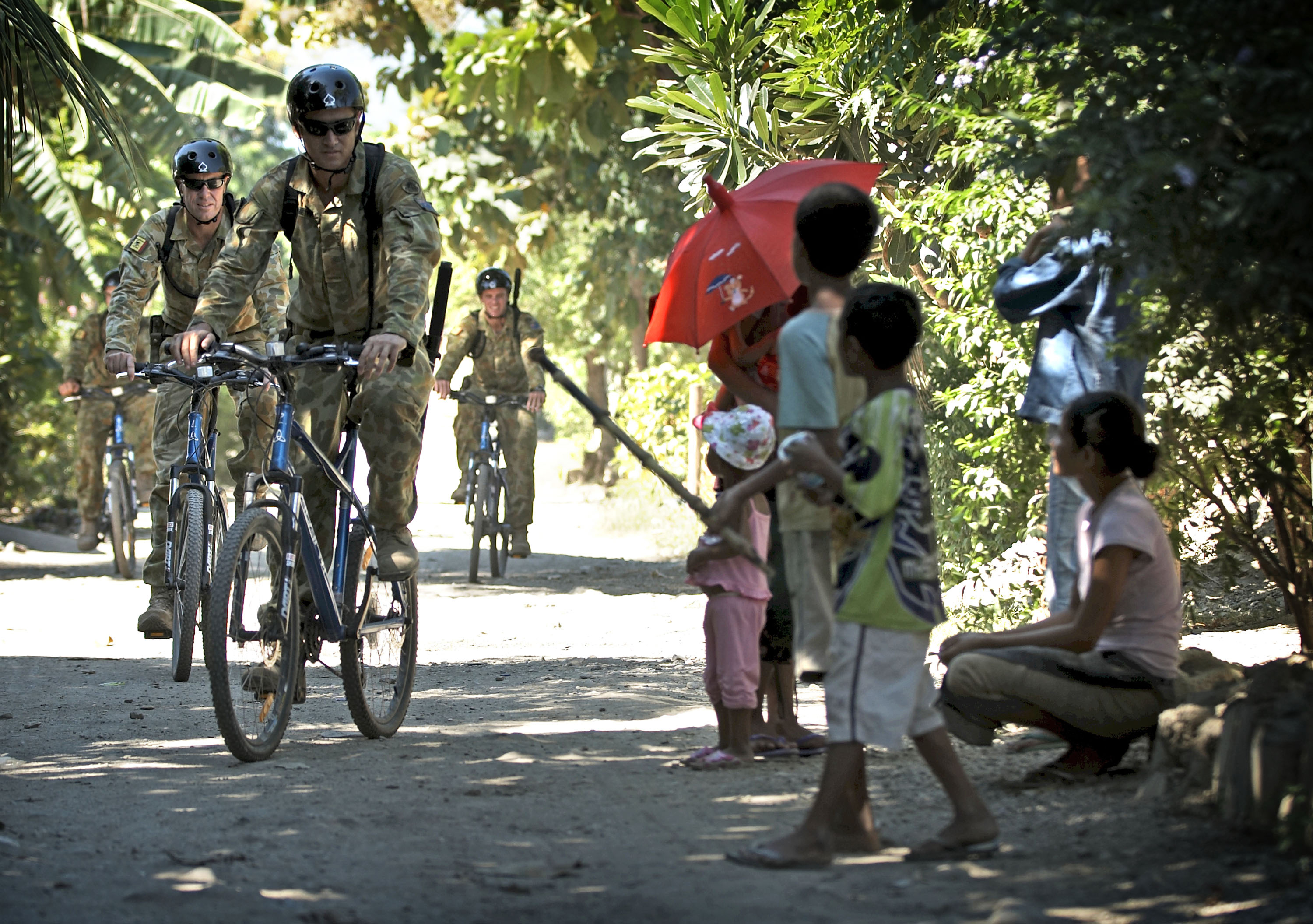 Timor: ISF soldiers on bike patrol Children come running to greet soldiers from Golf Company as they ride up a quiet street in Dili, East Timor as part of a bicycle patrol. East Timor's stable security situation allows Australian soldiers to ride bikes on street patrols instead of riding in vehicles. Bicycles give the soldiers the ability to travel a good distance and engage easily with the members of the community' (April 2009) [Defence].